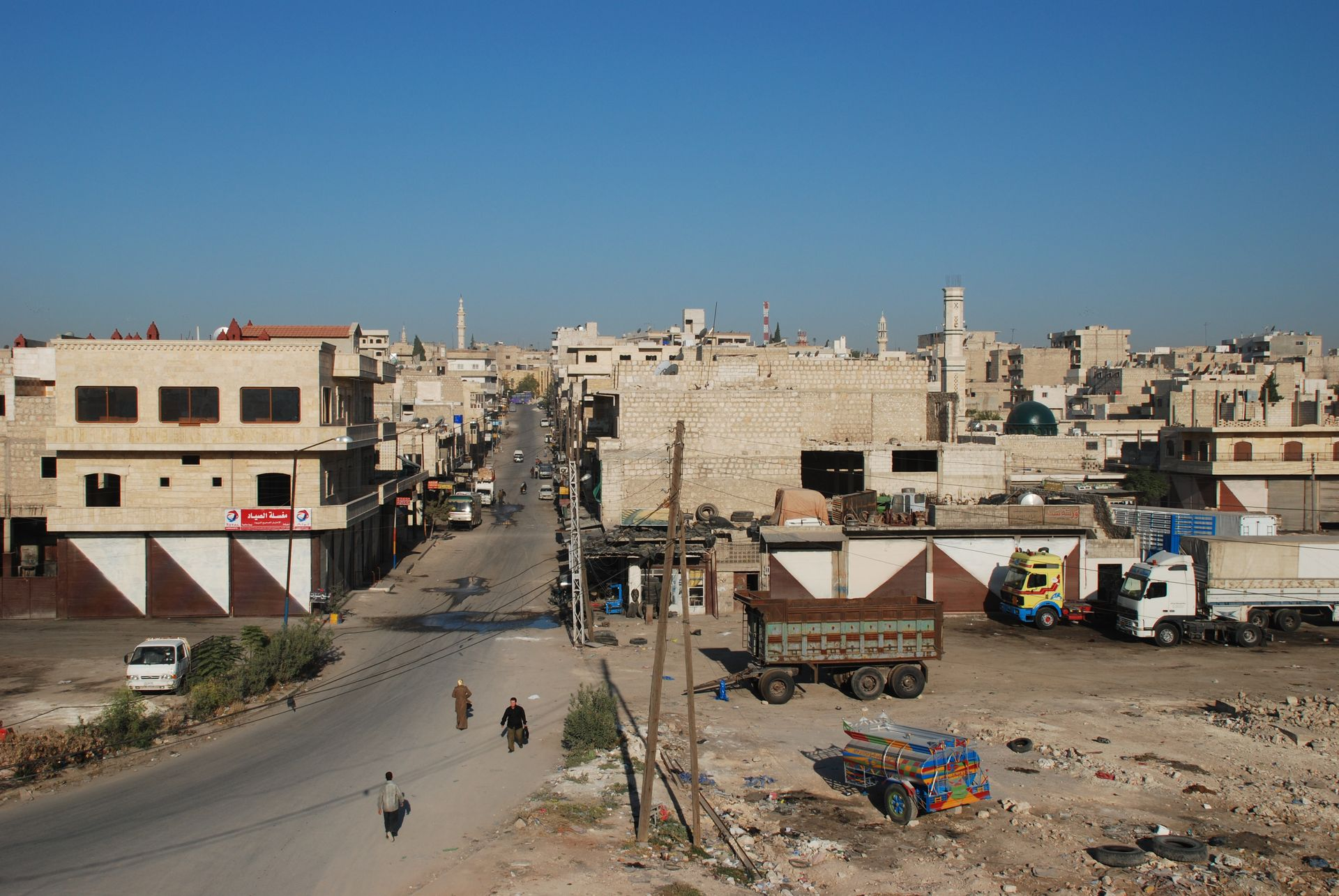 Maarat an-Numan, Syria, east part of town from highway